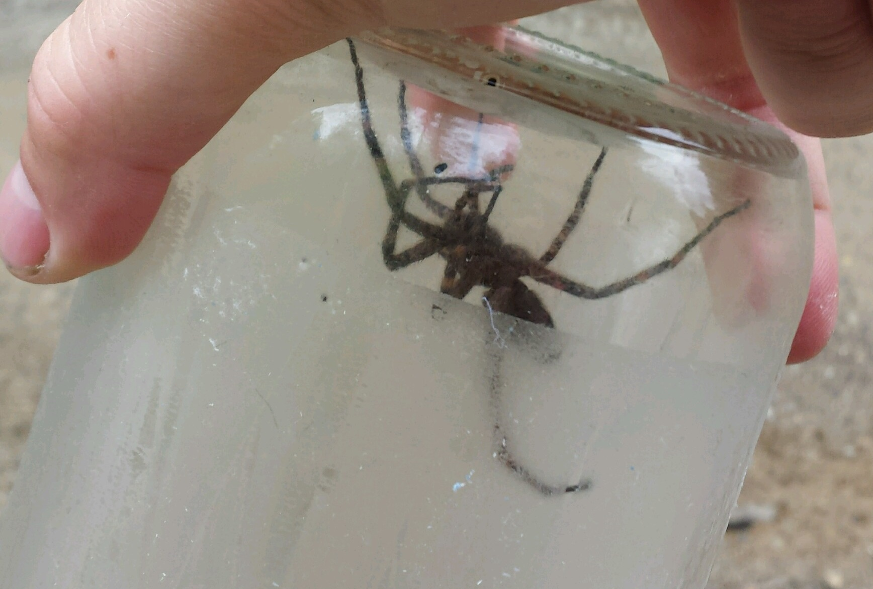 Prior to release it was being rather dreadful